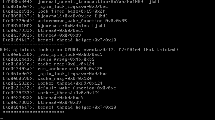 Backtrace at Linux_kernel_oops in Fedora Core